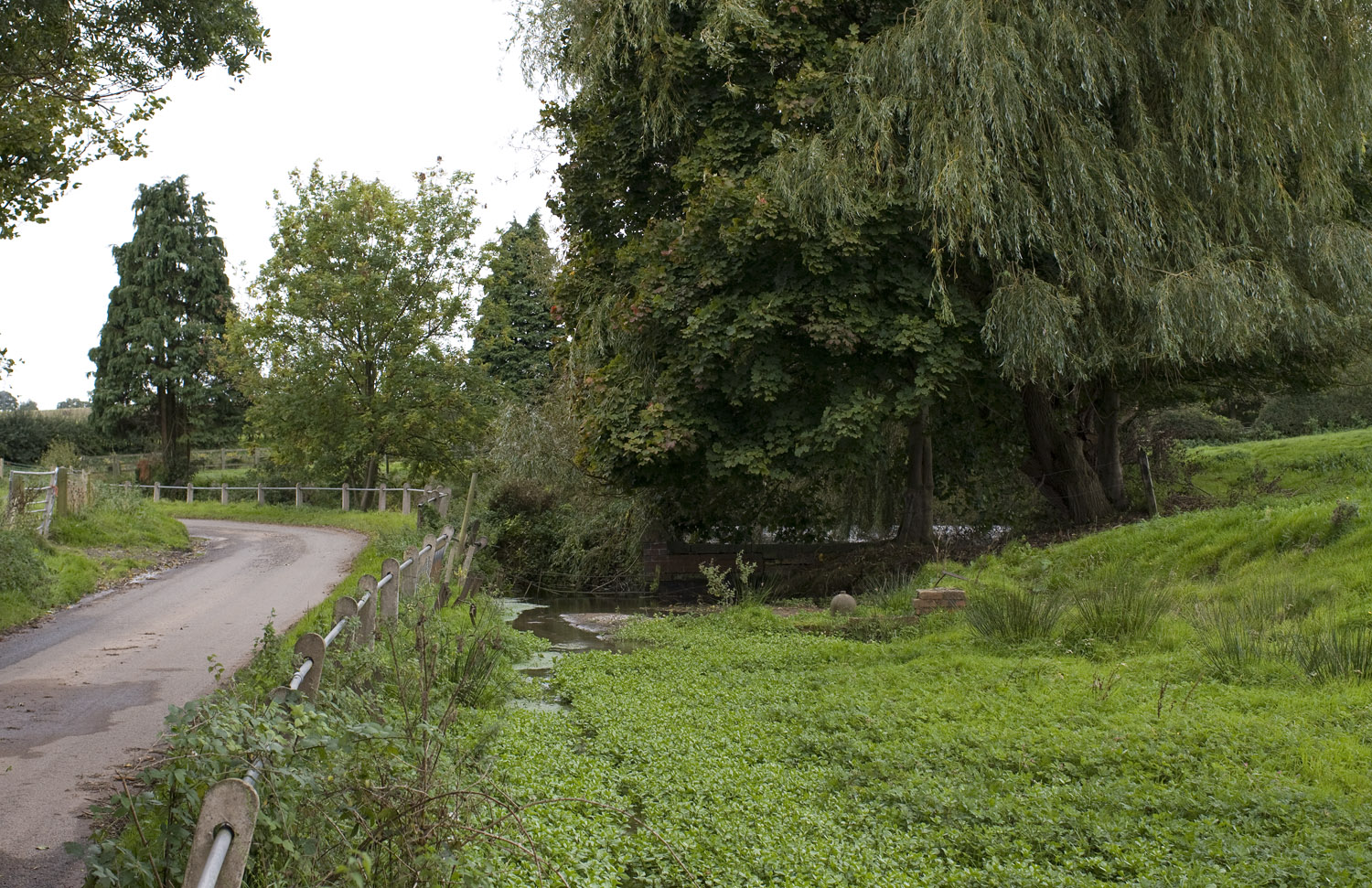 The far mill pool at Chadwell, Shropshire, presumed to be the site of St. Chad's well.